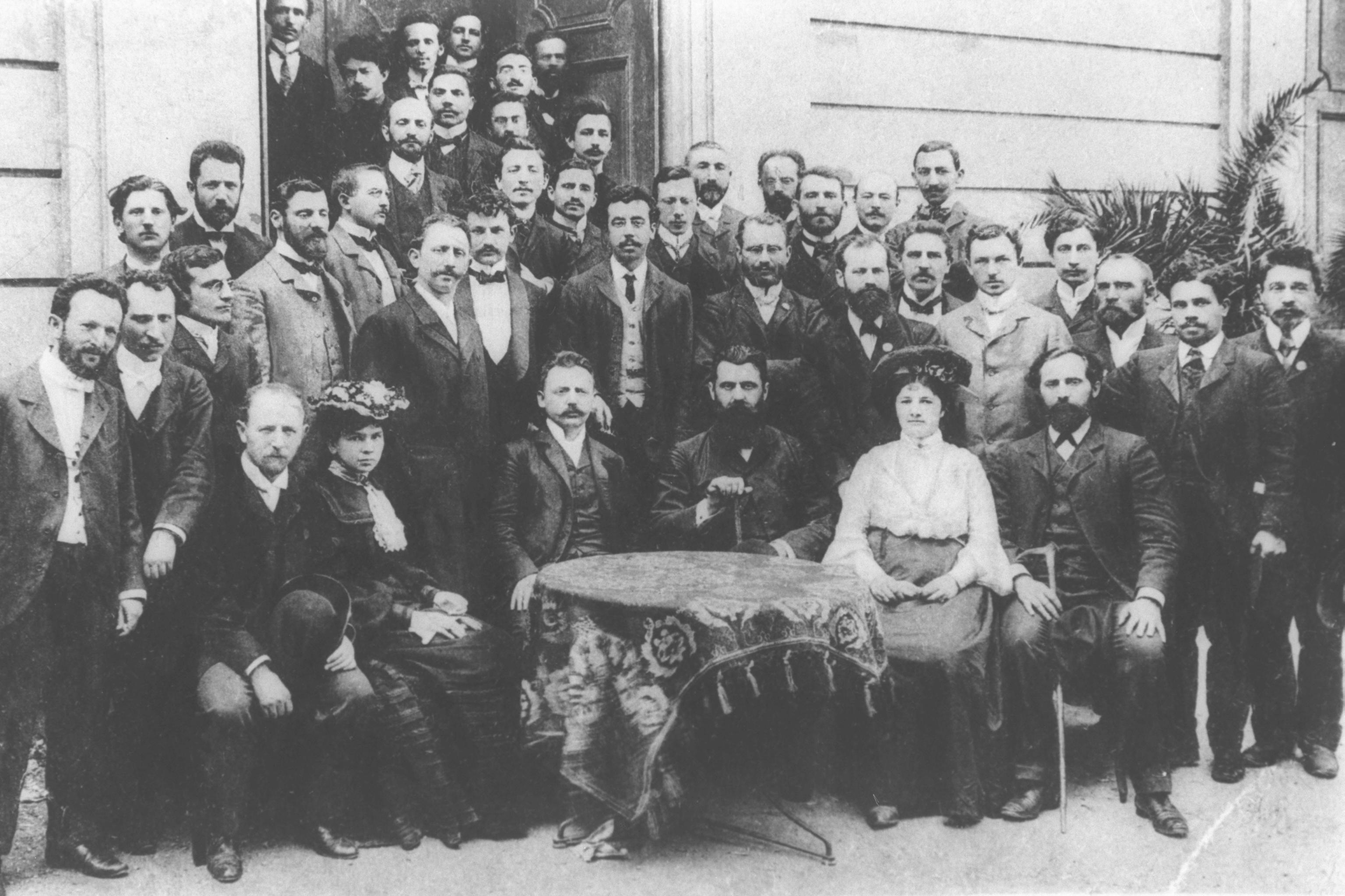 THEODOR HERZL (SEATED WITH BEARD BEHIND TABLE) WITH JOURNALISTS AT THE 6TH ZIONIST CONGRESS. SEATED NEXT TO HIM IS Z. WERNER, EDITOR OF THE ZIONIST PAPER, DIE WELT. תאודור הרצל (עם זקן) עם קבוצת עיתונאים בקונגרס הציוני השישי-1903, לידו יושב עורך העתון הציוני די ולט - ז.ורנר.